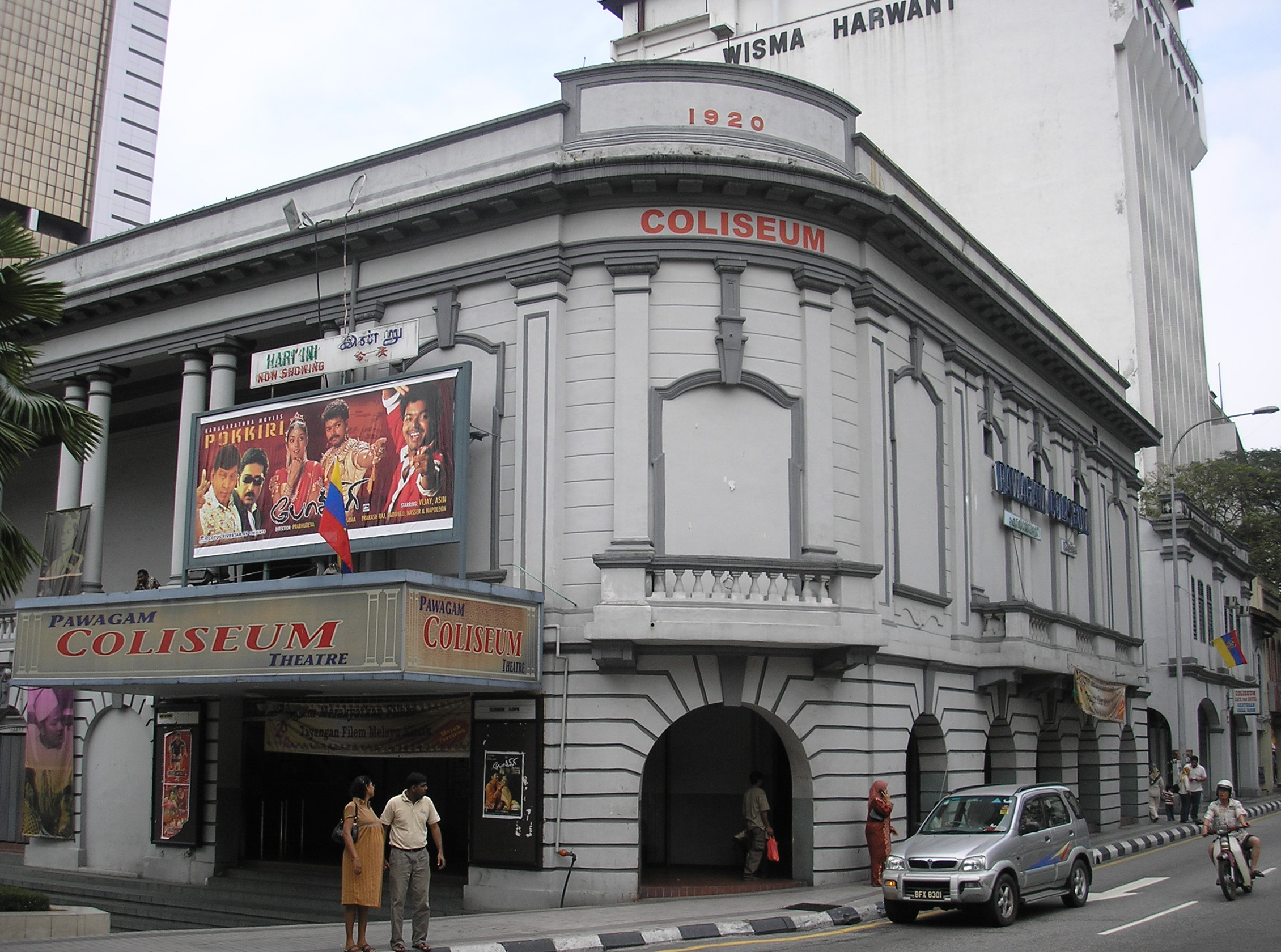 The Coliseum Cinema, Kuala Lumpur, Malaysia. The Coliseum Cafe and Hotel may be seen in similarly coloured shophouses on the right hand background.